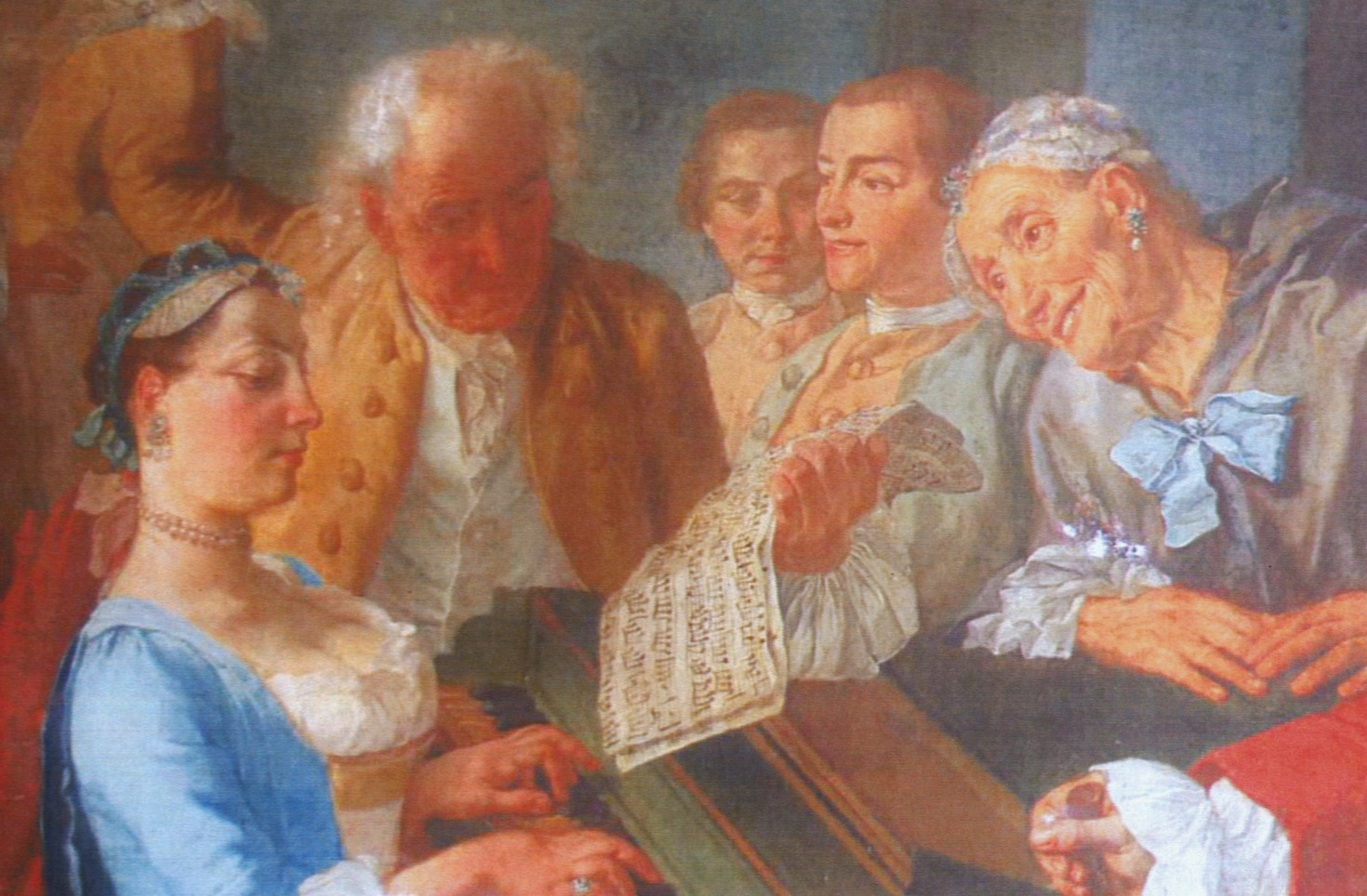 Detail of the painting Concerto (mid 18th-century), by Gaspare Traversi. It depicts Maria Barbara of Portugal playing the harpsichord, being tutored by Domenico Scarlatti. The painting is on the Braamcamp Freire House-Museum Art Gallery, in Santarém, Portugal.